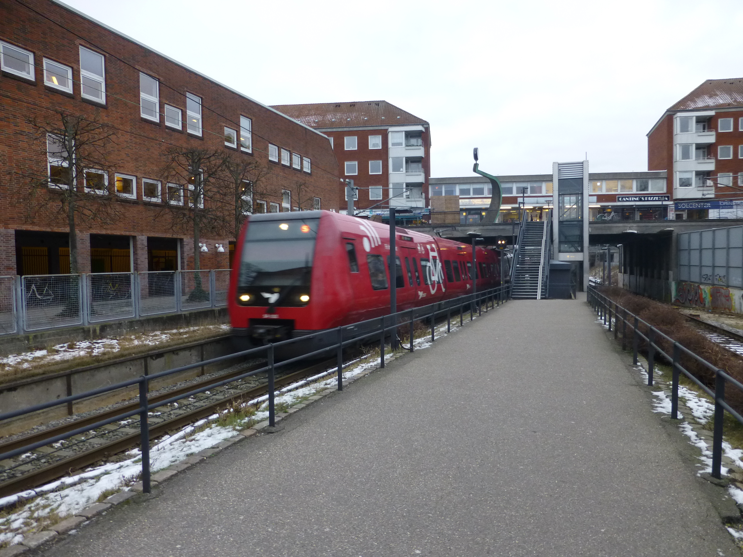 Ballerup Station, a S-train station in Copenhagen. Line C for Frederikssund.